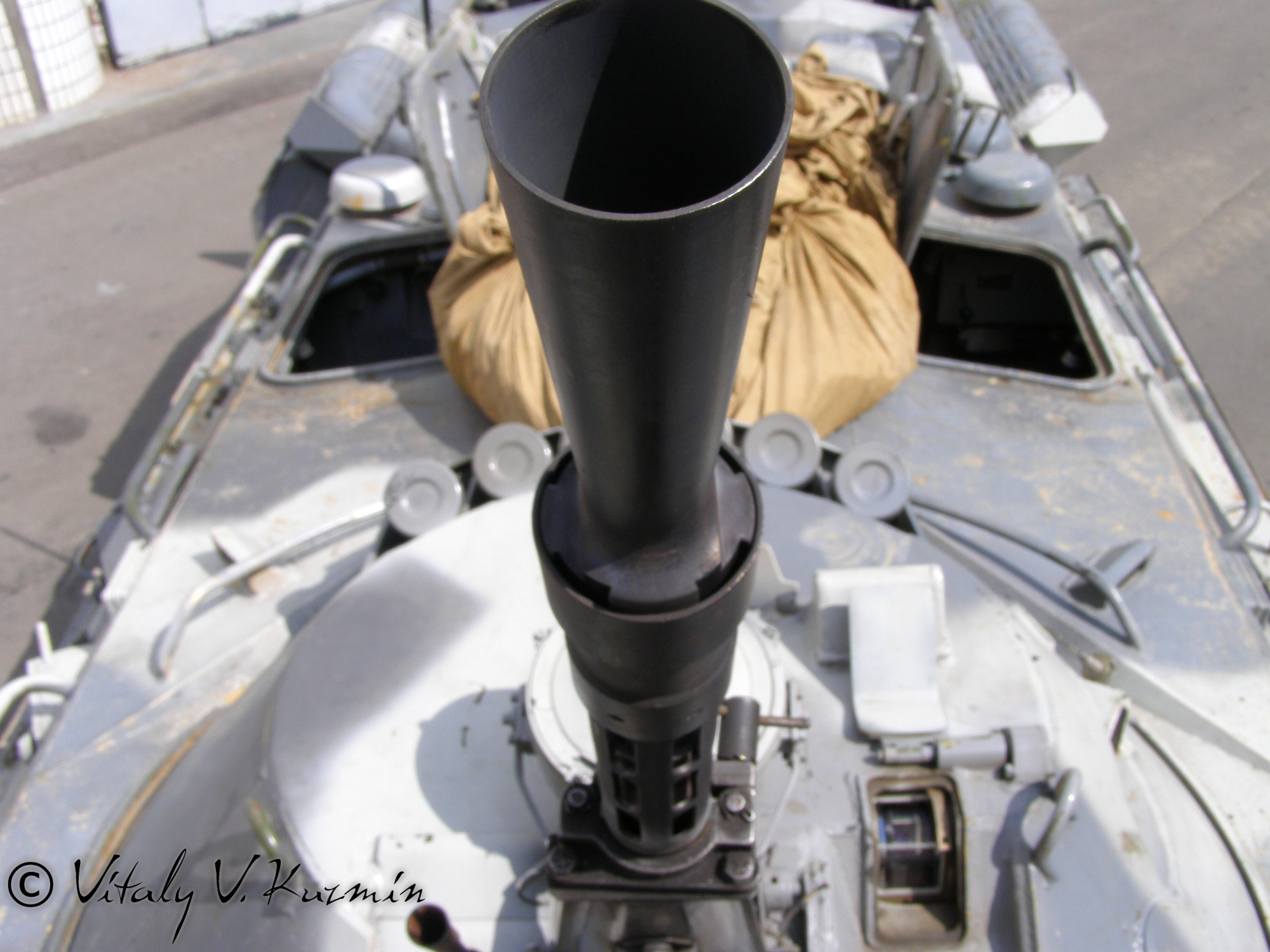 Moscow OMON BTR-80